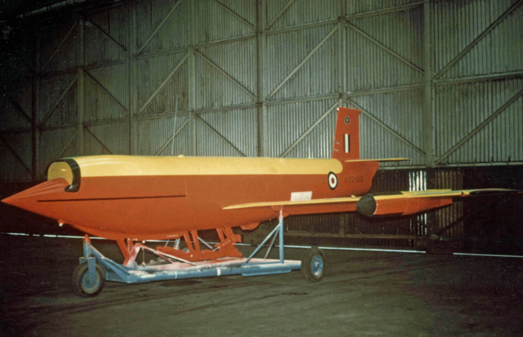 GAF Jindivik 102B after assembly by Fairey Aviation at Manchester Airport.